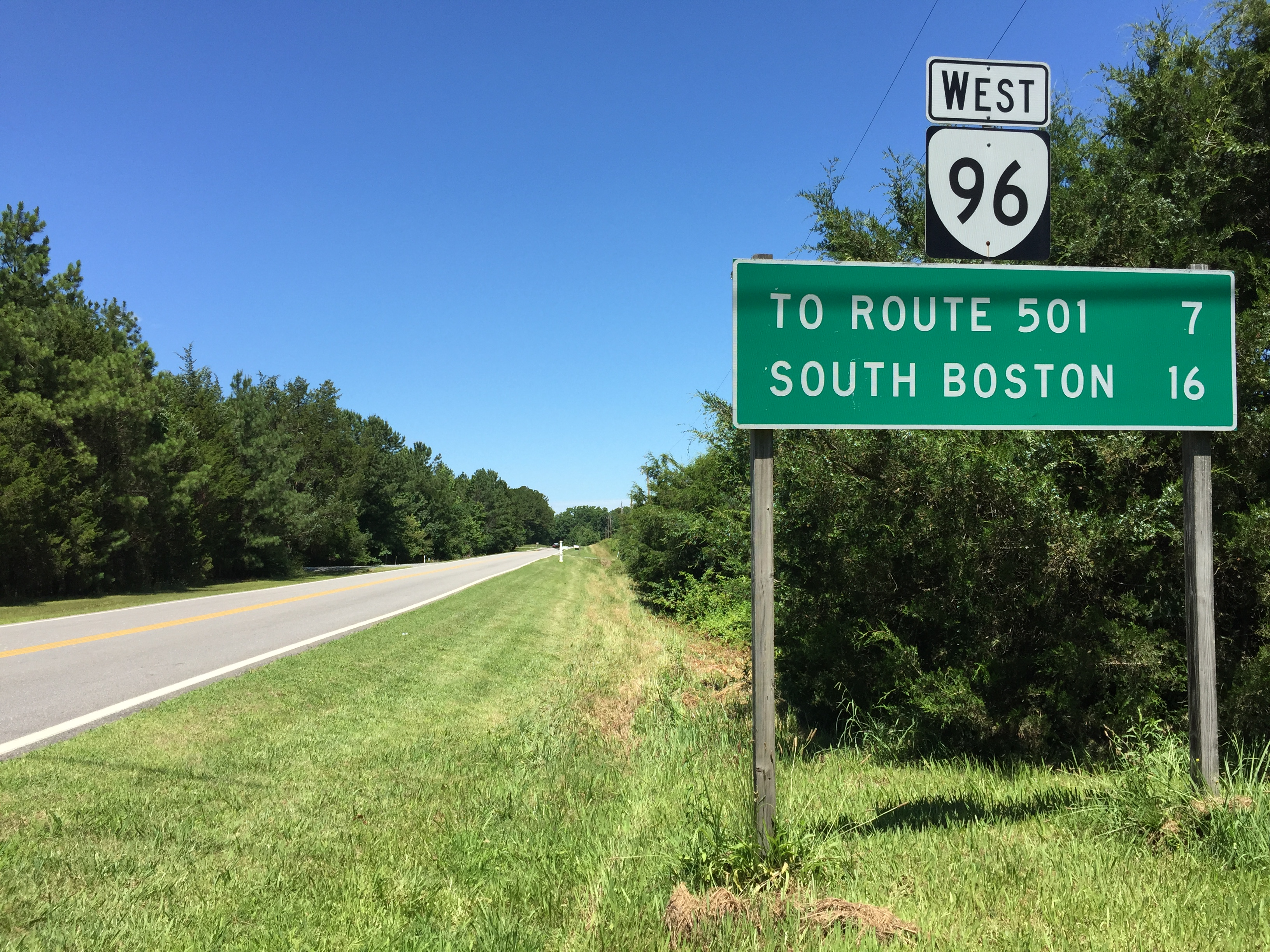 View west along Virginia State Route 96 (Virgilina Road) just northwest of Virgilina in Halifax County, Virginia